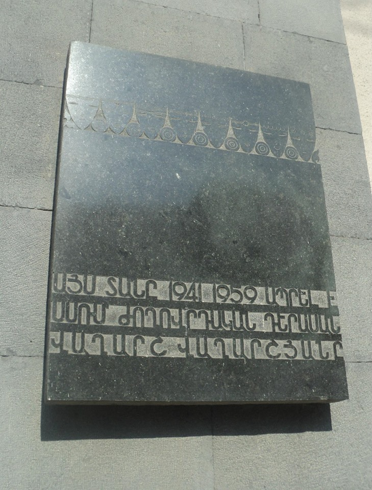 Vagharsh Vaghatshyan Plaque